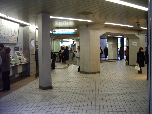 Hinodechou station on Keikyu-Main line.